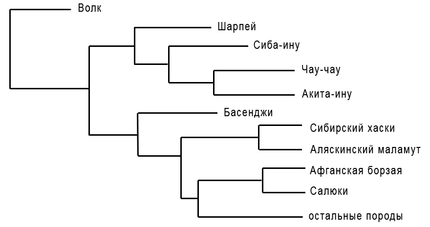 Phylogenetic tree of dog breeds based on Parker, H.G.; Kim, L.V.; Sutter, N.B.; Carlson, S.; Lorentzen, T.D.; Malek, T.B.; Johnson, G.S.; DeFrance, H.B.; Ostrander, E.A.; Kruglyak, L. (2004-05-21). "Genetic structure of the purebred domestic dog". Science 304 (5674): 1160. PMID 15155949